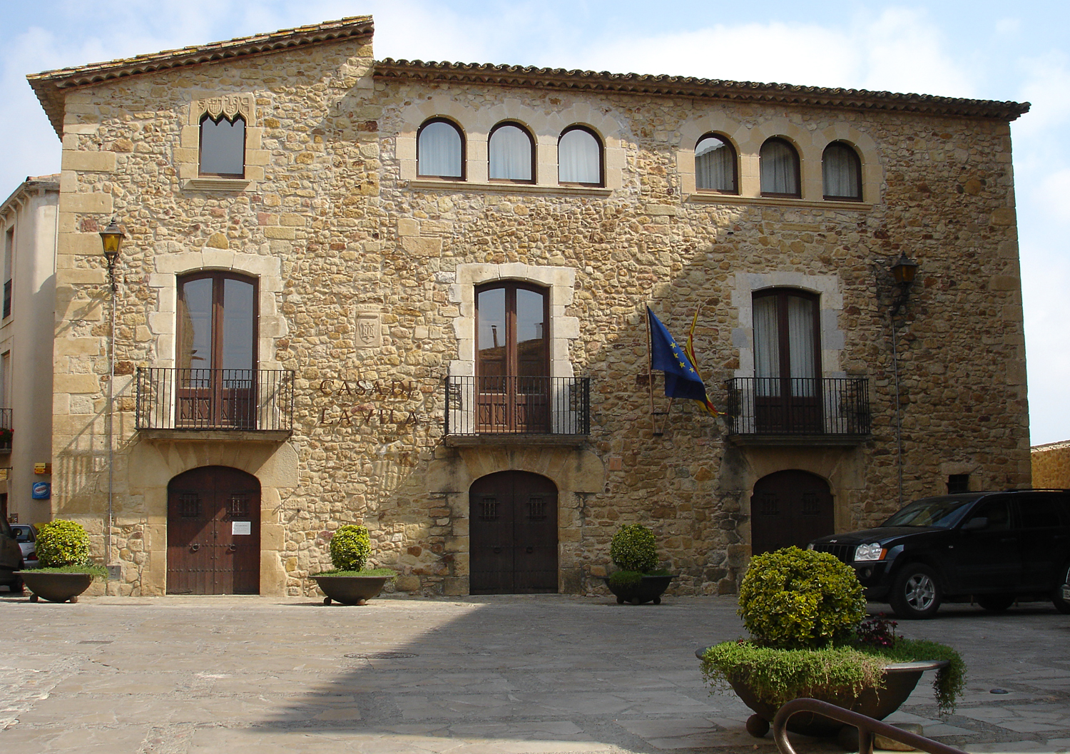 Pals (Girona, Spain)